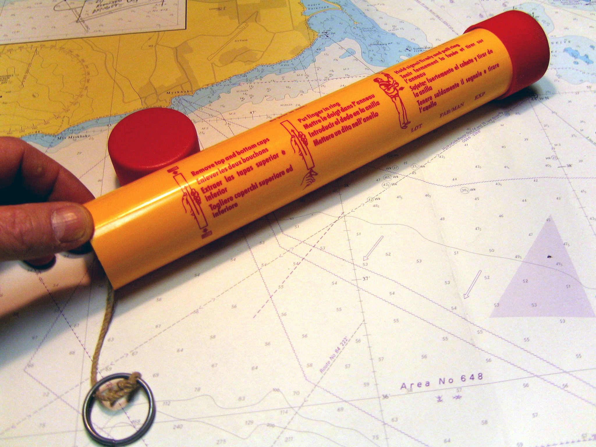 Parachute signal.